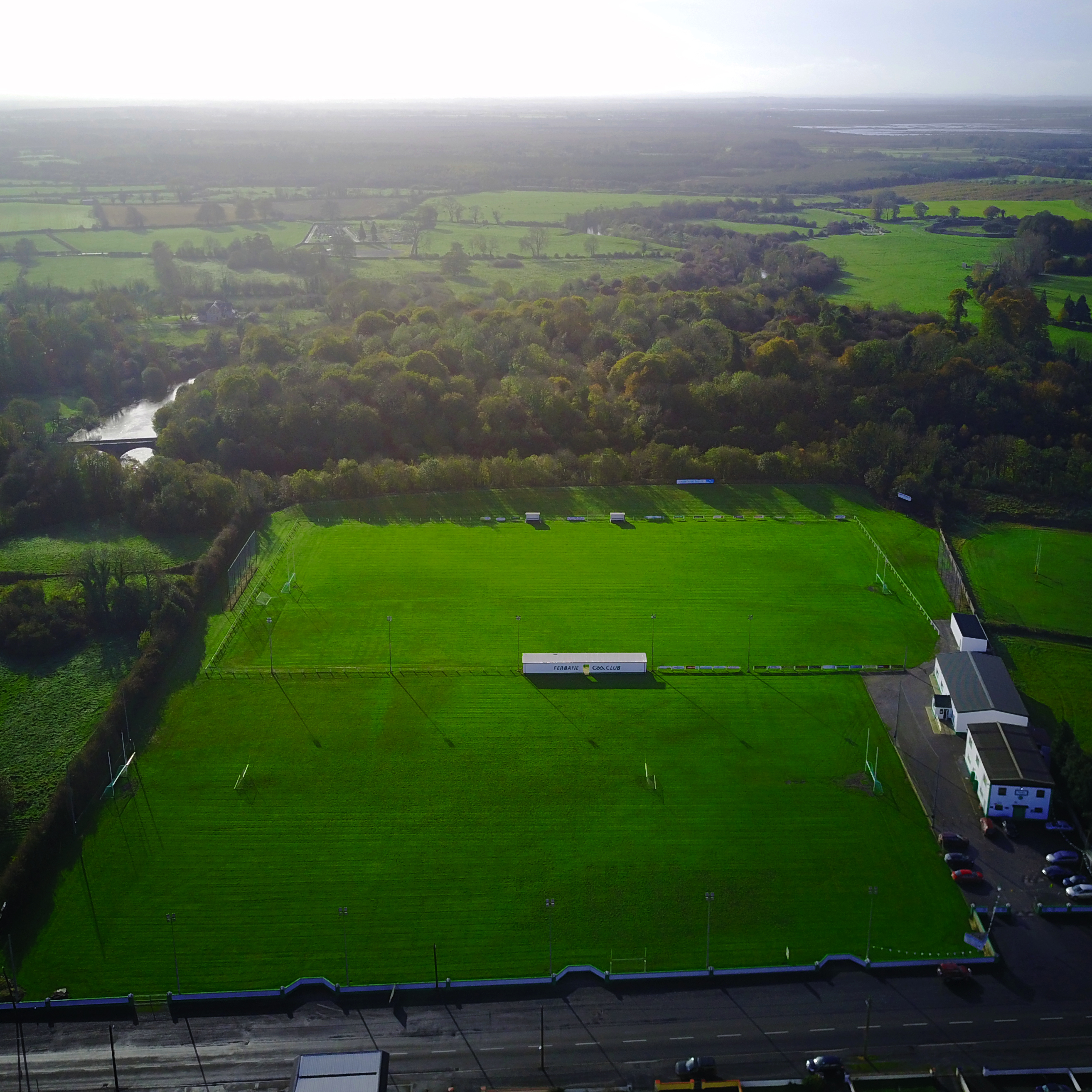 An aerial photograph of the two football pitches along with the clubhouse and gym located at Ferbane Football Field.